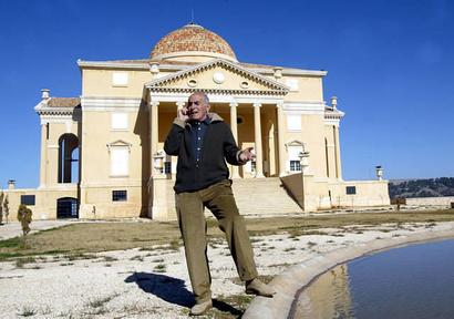 photo for the palace